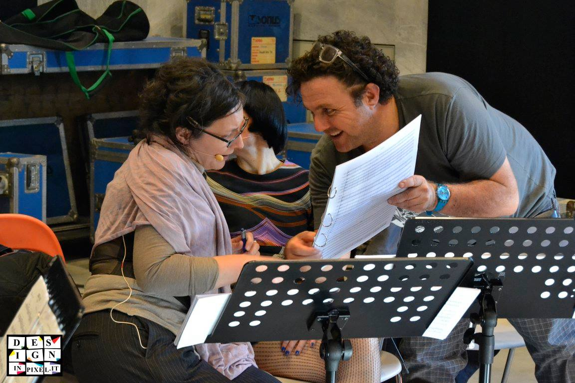 Rehearsing for Triumphs & Laments